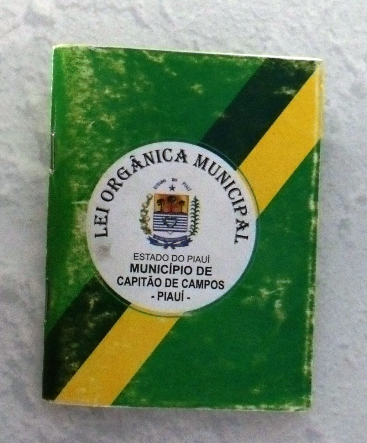 Organic Law of the Municipality of Captain Fields, Piauí.